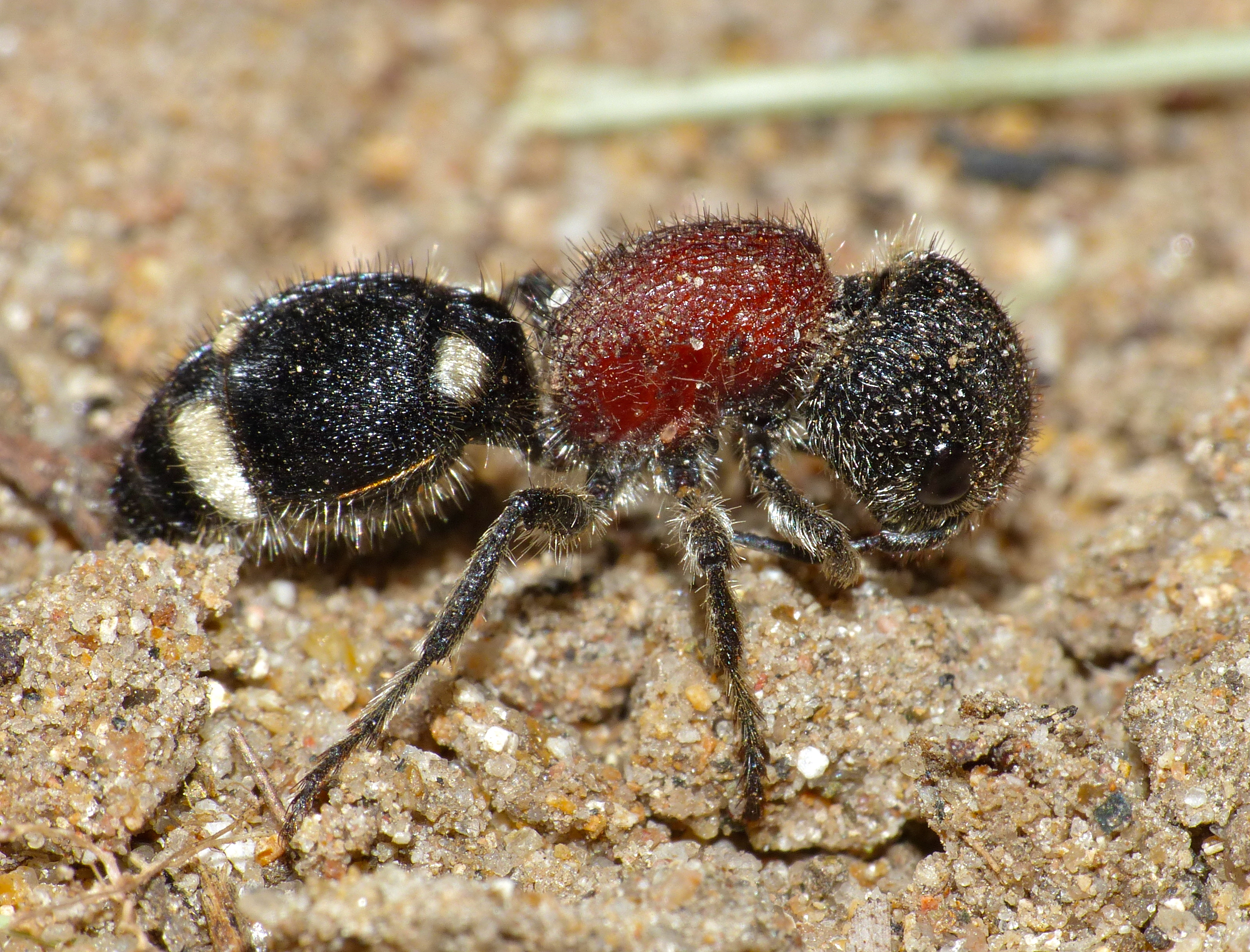 Tamboti Tented Camp, Kruger NP, SOUTH AFRICA